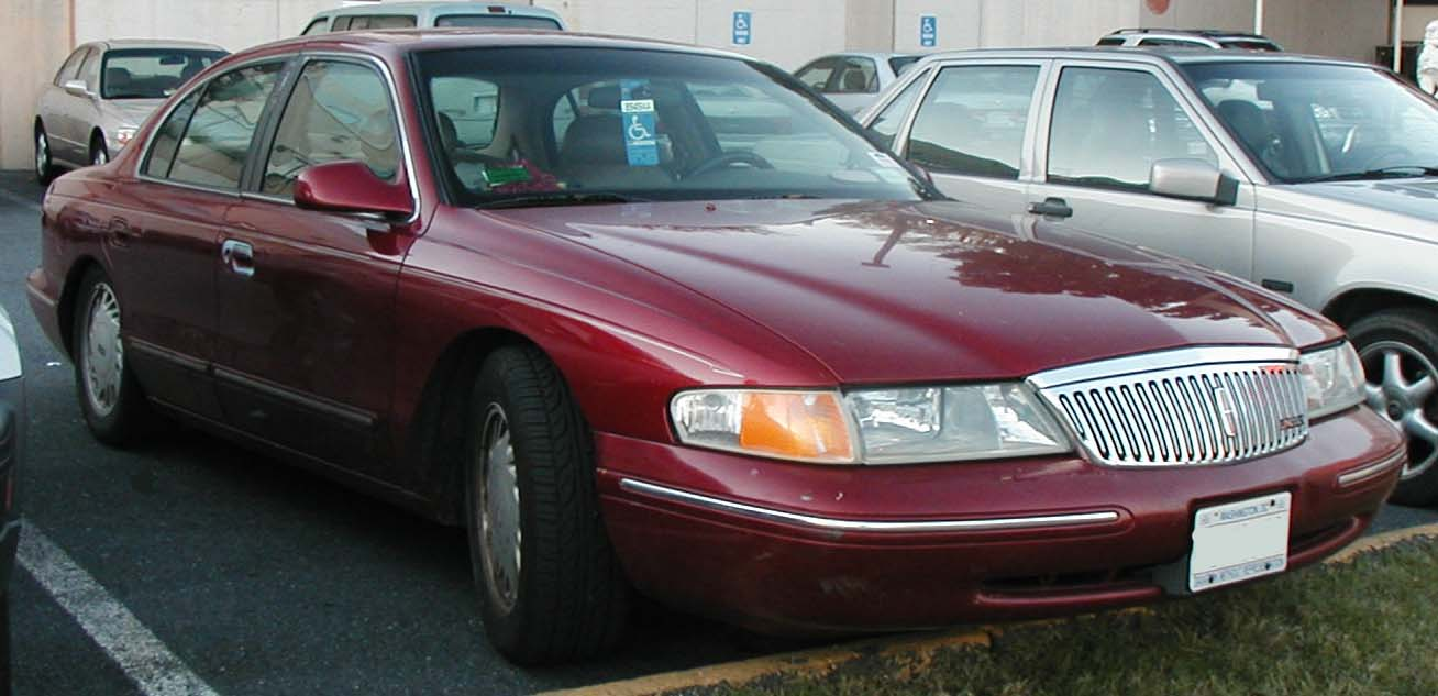 1995-1997 Lincoln Continental photographed in USA.